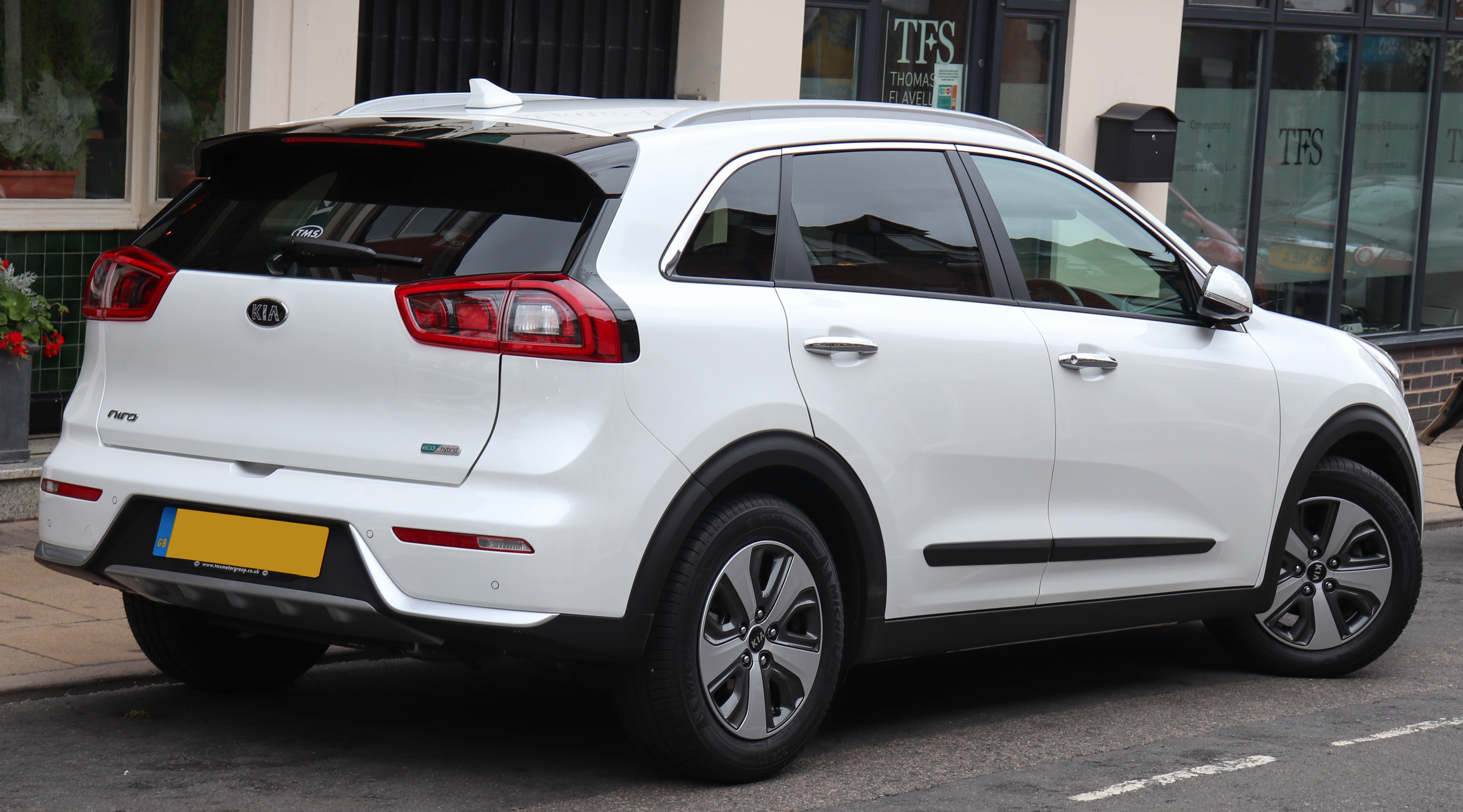 2017 Kia Niro 2 S-A Eco Hybrid 1.6 Rear Taken in Warwick